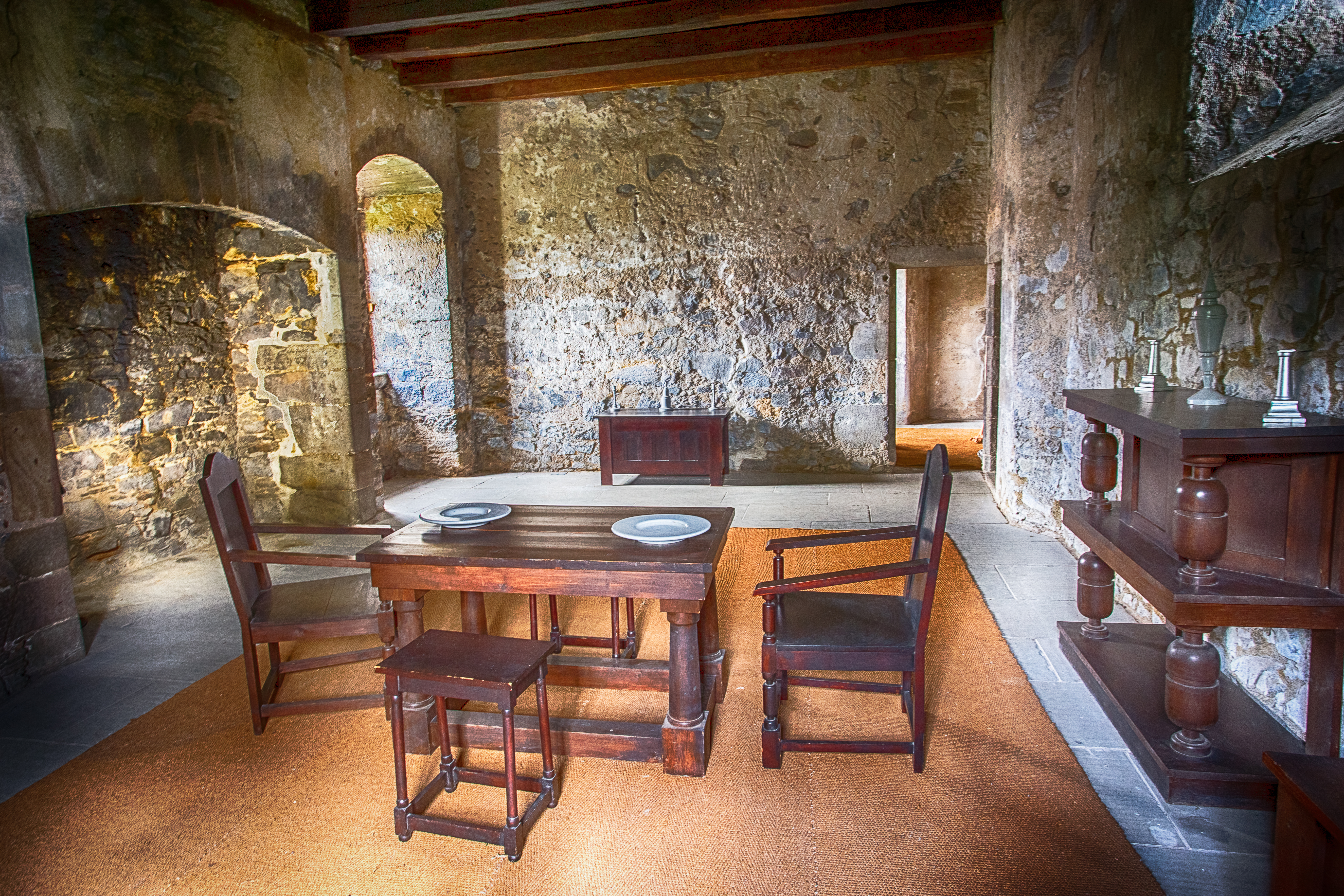 Claypotts Castle Wikidata has entry Q1812387 with data related to this item.